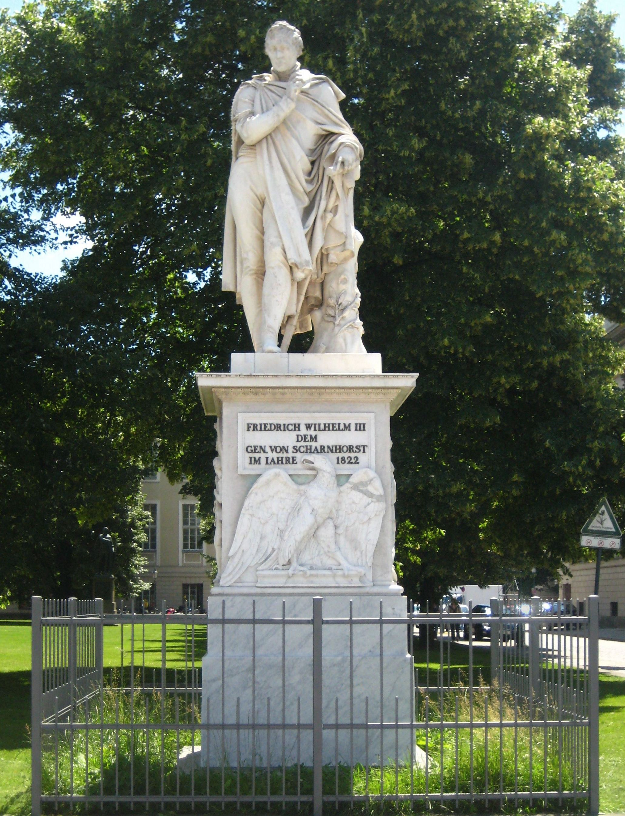 Memorial for General Gerhard von Scharnhorst on Bebelplatz in Berlin-Mitte, created 1819 to 1822 to a design by Daniel Christian Rauch and Karl Friedrich Schinkel. Together with the neighboring Bülow memorial, it originally stood at the New Guard House (Neue Wache) on the other side of Unter den Linden. In 1961, the sculpture was reerected on the eastern part of Bebelplatz in the green space between the Princess Palace (Prinzessinnenpalais) and the State Opera House (Staatsoper). It is landmarked.